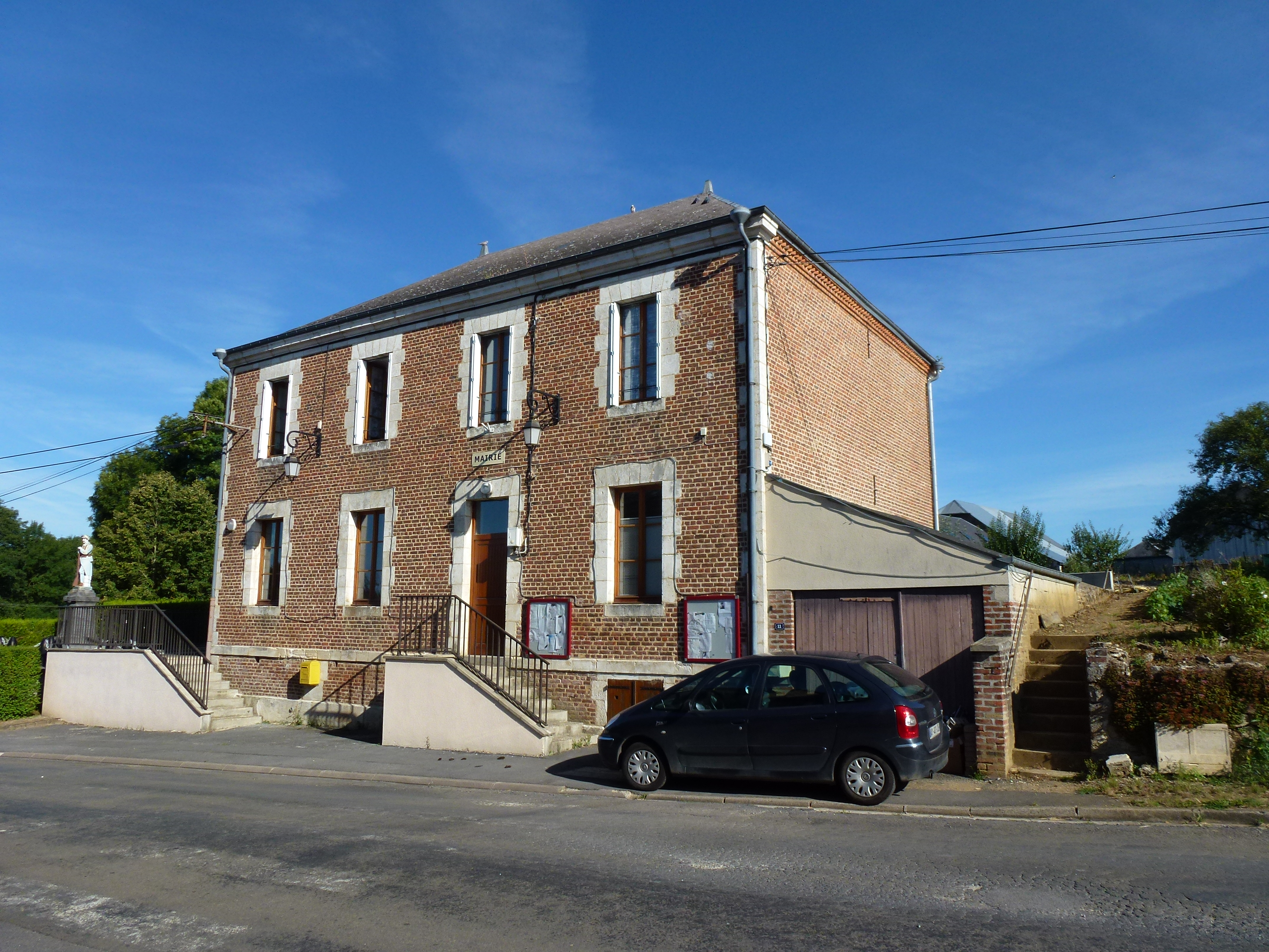 Wagnon (Ardennes) mairie